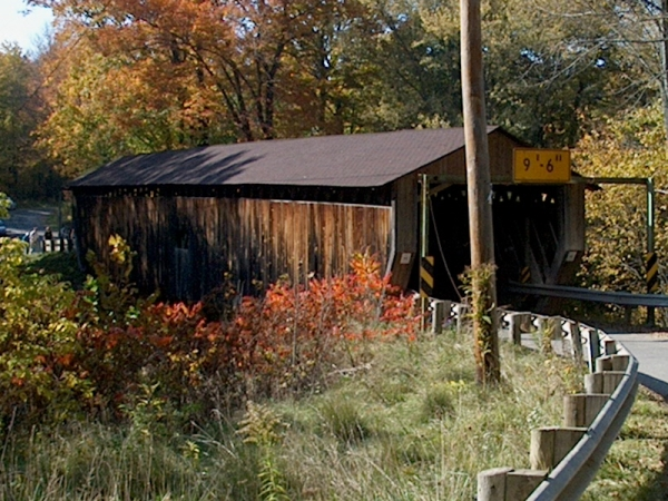 A photograph of Riverdale Road Covered Bridge, located in Ashtabula County, Ohio.